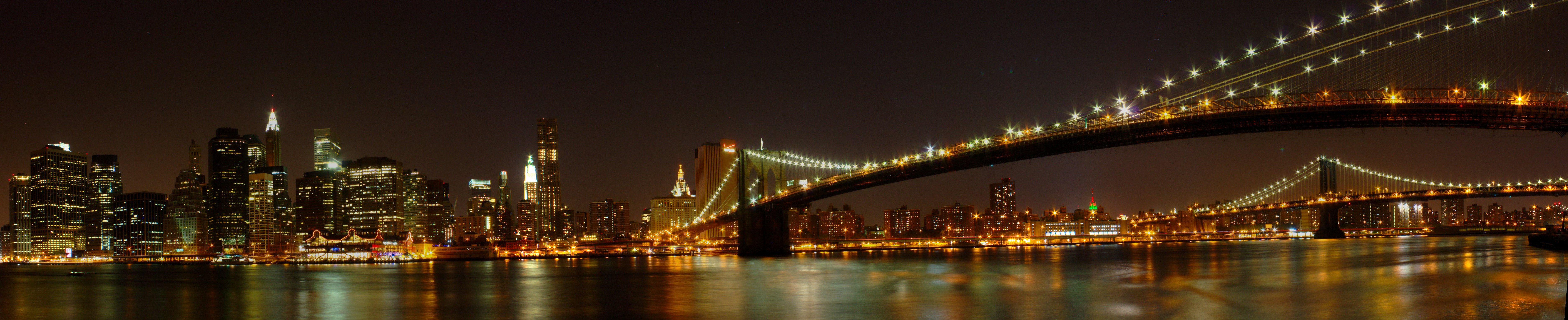 This is my attempt of getting what my friend Aswin got here, but I chose a slightly different location to get some variety. Naturally, since I tried to get a very wide angle, the bridge had to bend, but I hope you won't mind that. The full image (large size) is with me; please just FlickrMail me, and I'll be more than happy to make it available to you. If you think the image is too bright, please let me know. Can you spot the Empire State Building (easy) and Chrysler building (hardly visible)?